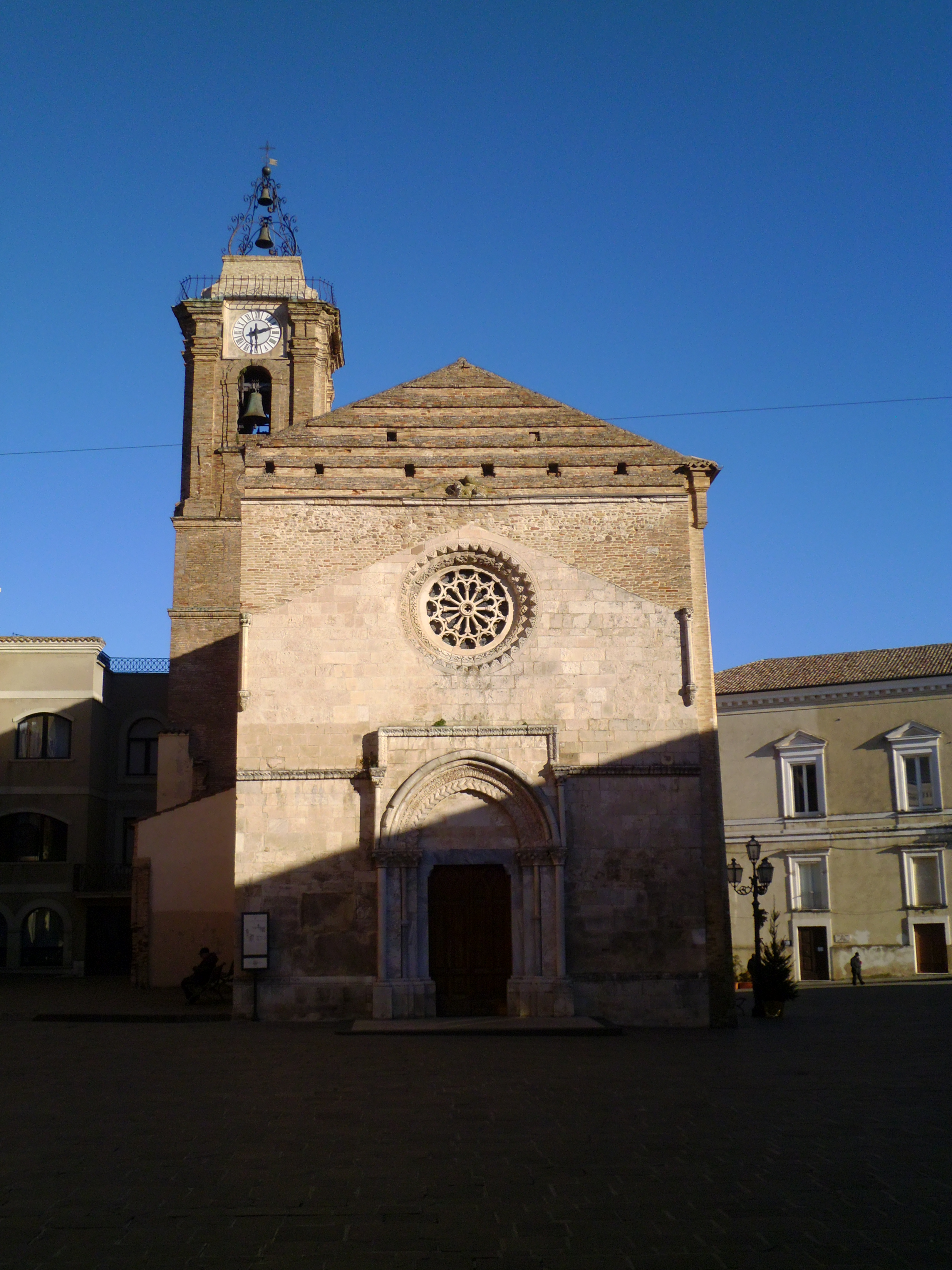 Vasto